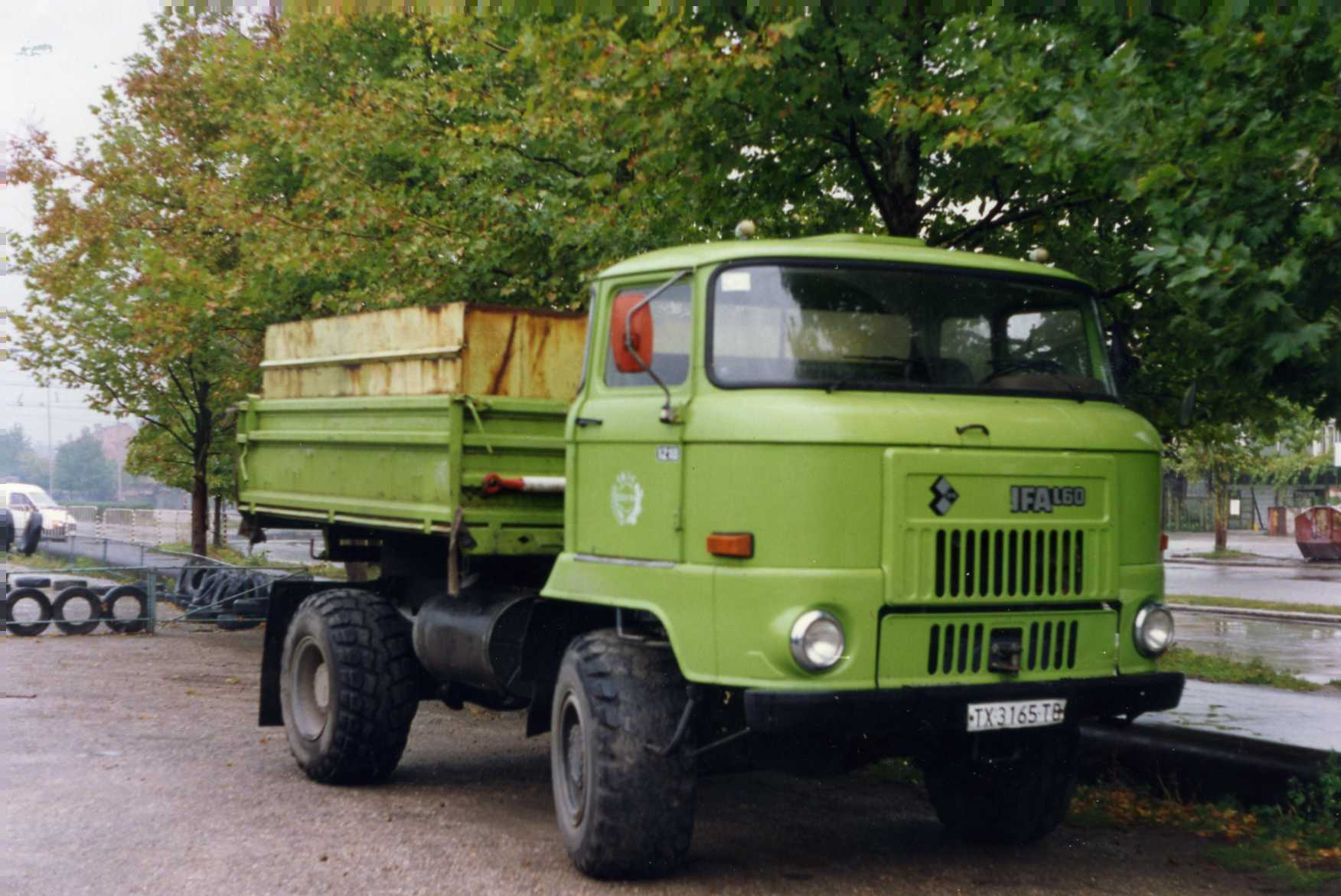 IFA L60 truck in Dobrich, Bulgaria. The registration, TX is still used here, the name of Dobrich being Tolbukin and TX being the Cyrillic abbreviation of that name. This pair of letters is still in use, as anything with a D or CH or B would entail using a non-permitted cyrillic letter.